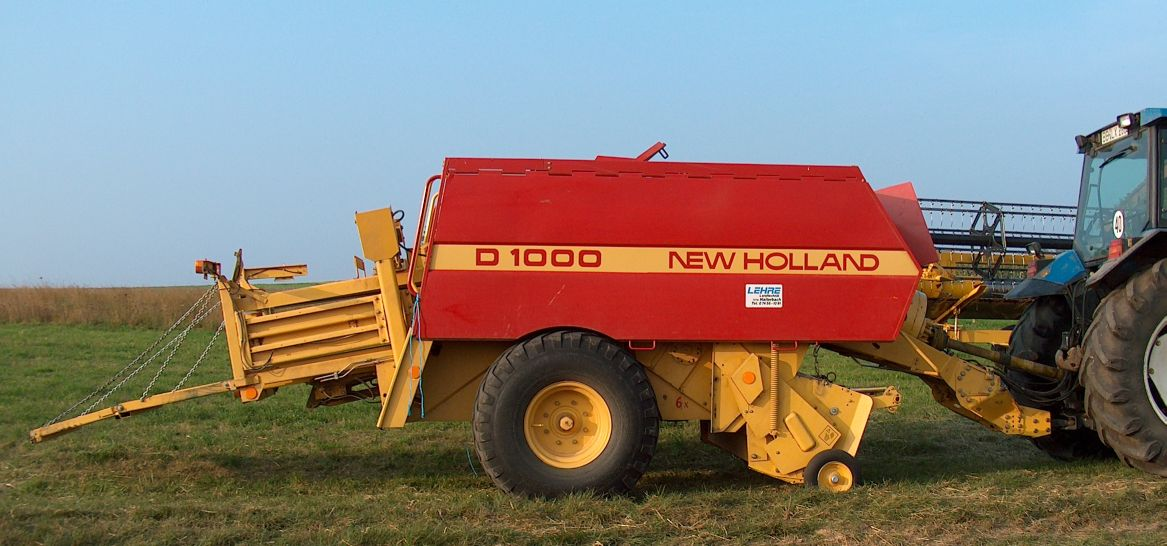 Large rectangular baler D1000 by New Holland